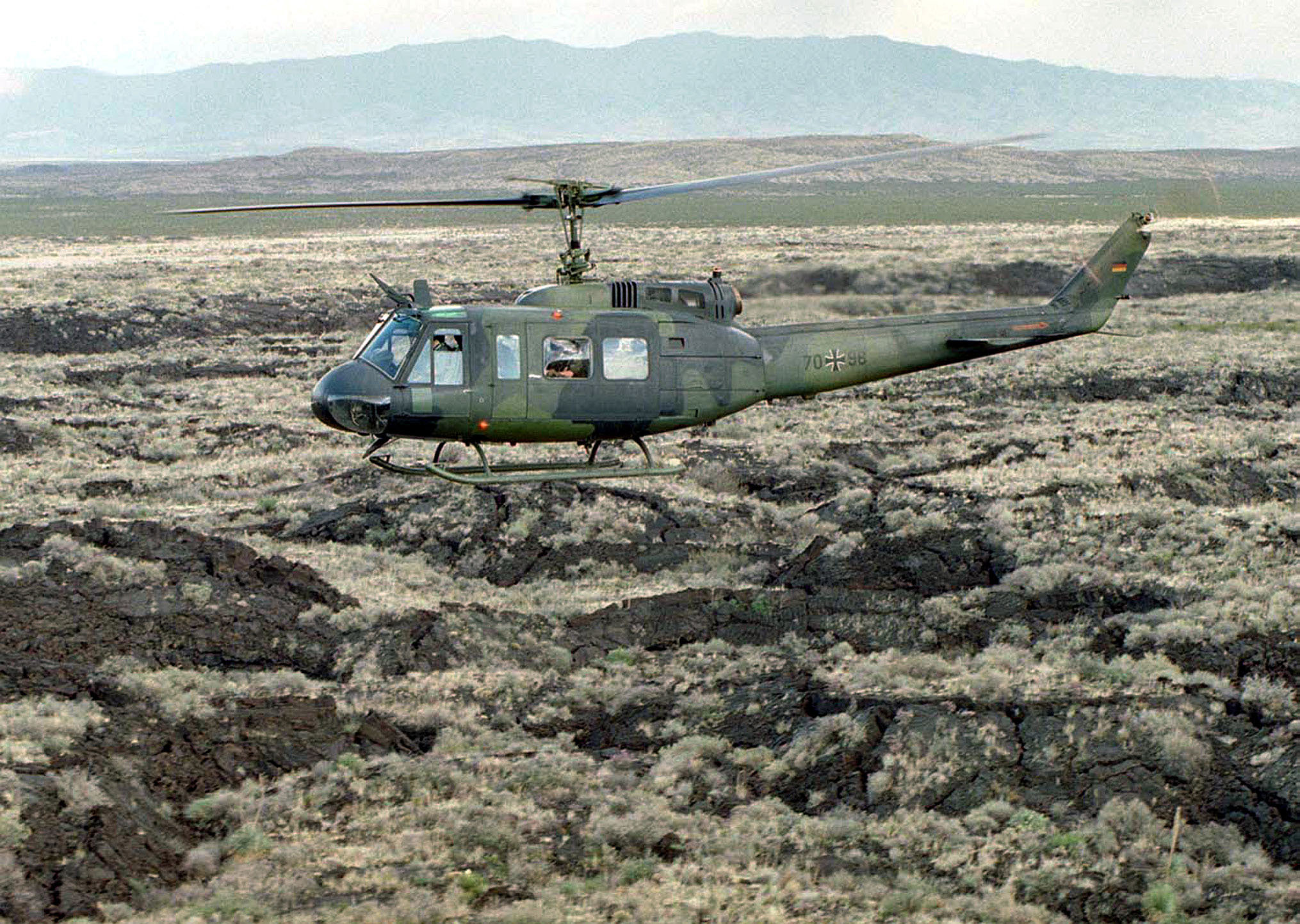 A Luftwaffe (German Air Force) Bell/Dornier UH-1D Huey from the Lufttransportgeschwader 62 (LTG 62, 62nd Transport Wing) during a familiarization flight over the Alamogordo bombing range, New Mexico (USA). The German UH-1D was part of an excercise of U.S., German, with Dutch and Canadian forces.